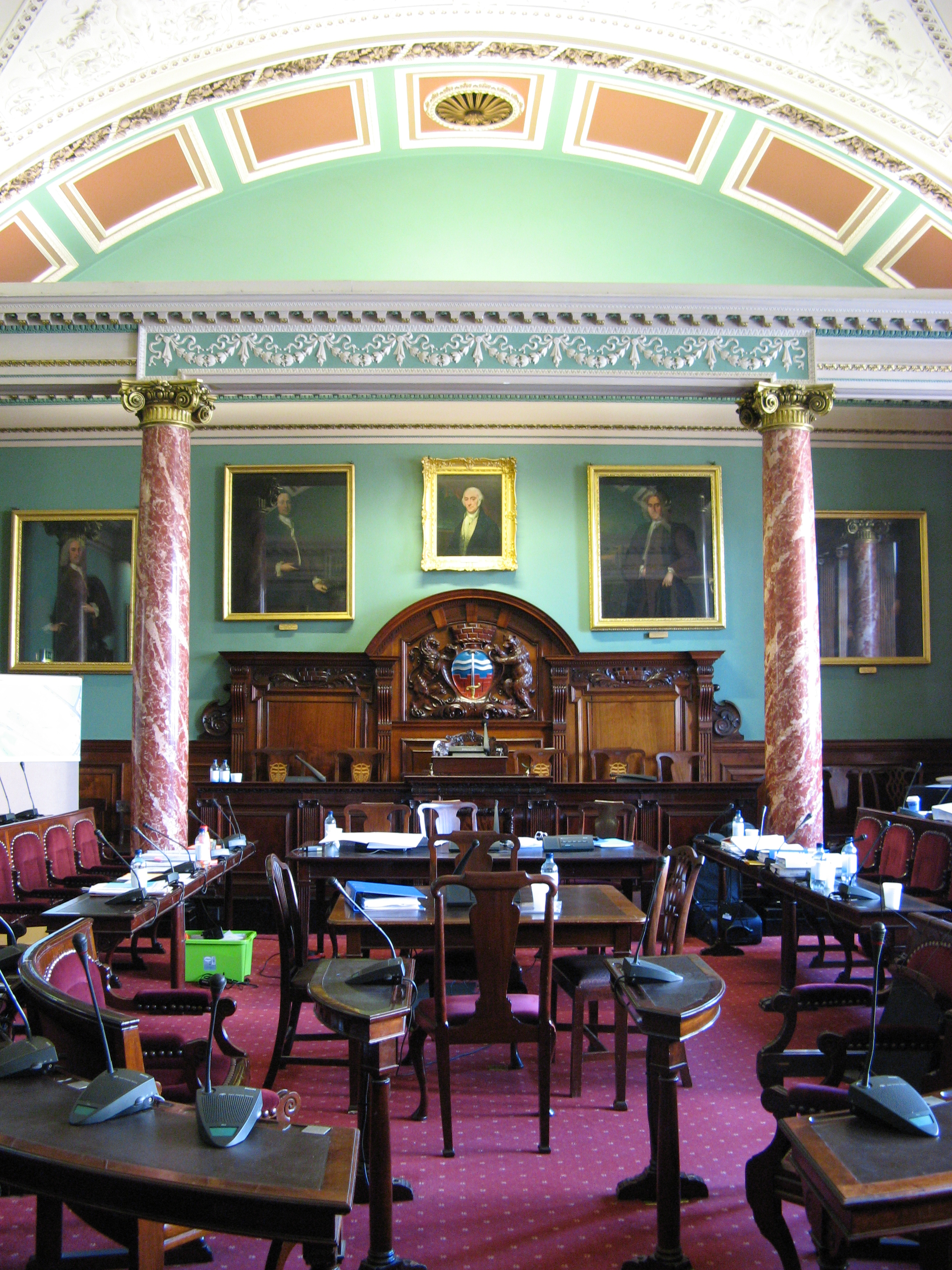 Council chamber in the Bath Guildhall, currently mainly used for Bath and North East Somerset council meetings. In this photo the chamber is arranged for a public inquiry into the Newbridge Meadows Village Green application.